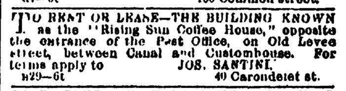 1867 advertisement: TO RENT OR LEASE - THE BUILDING KNOWN as the "Rising Sun Coffee House" opposite the entrance to the Post Office, on Old Levee street, between Canal and Customhouse. For terms apply to JOS. SANTINI B29-6t 40 Carondelet st. "Old Levee Street" is now Decatur Street; address is on lake side of 100 block of Decatur. The "Post Office" was in the Old Custom House building.